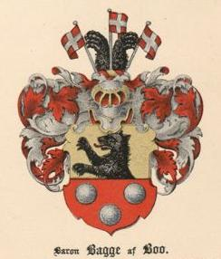 Coat of arms of Bagge af Boo family.